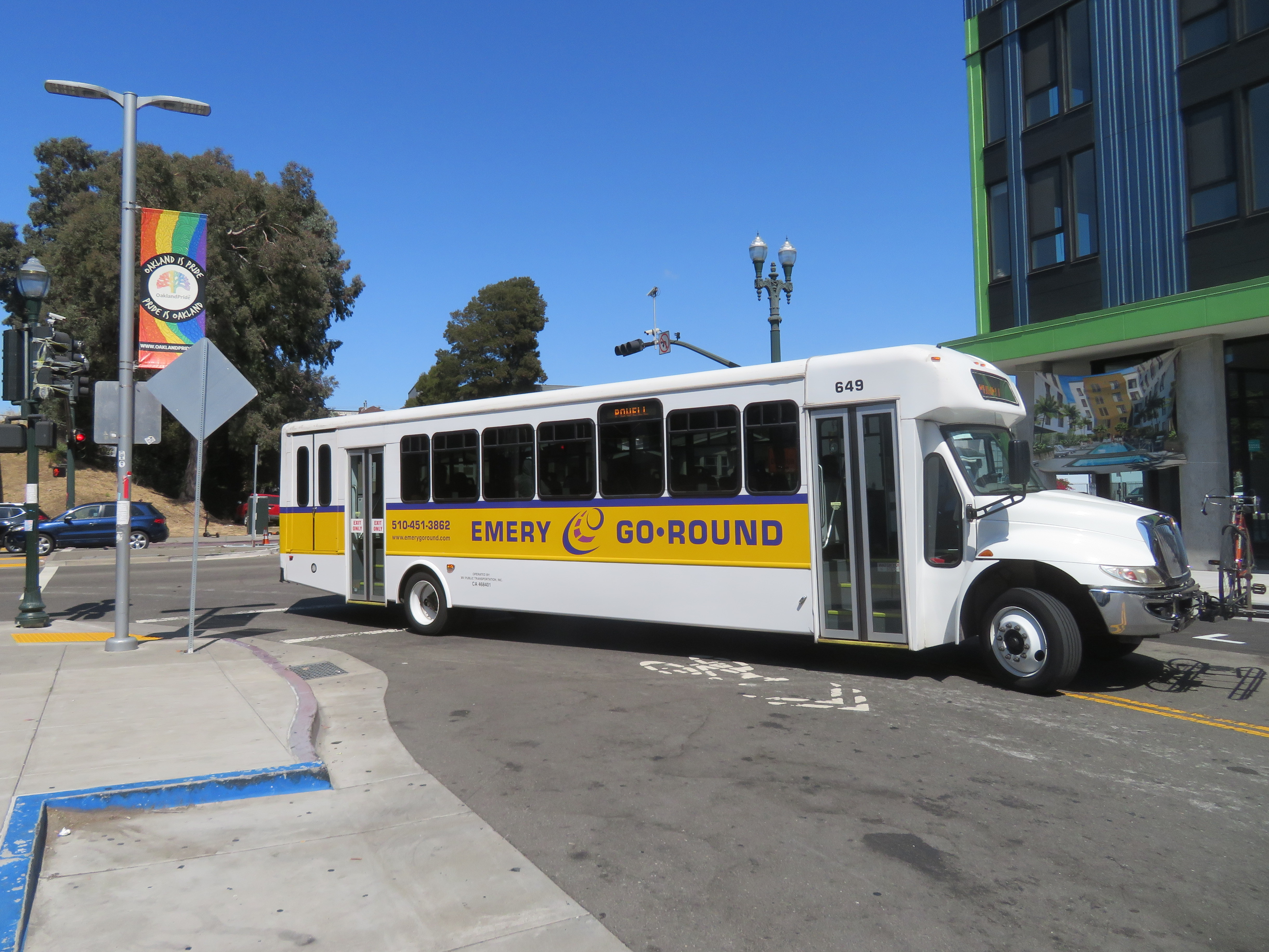 An Emery-Go-Round bus turning into MacArthur station in September 2019